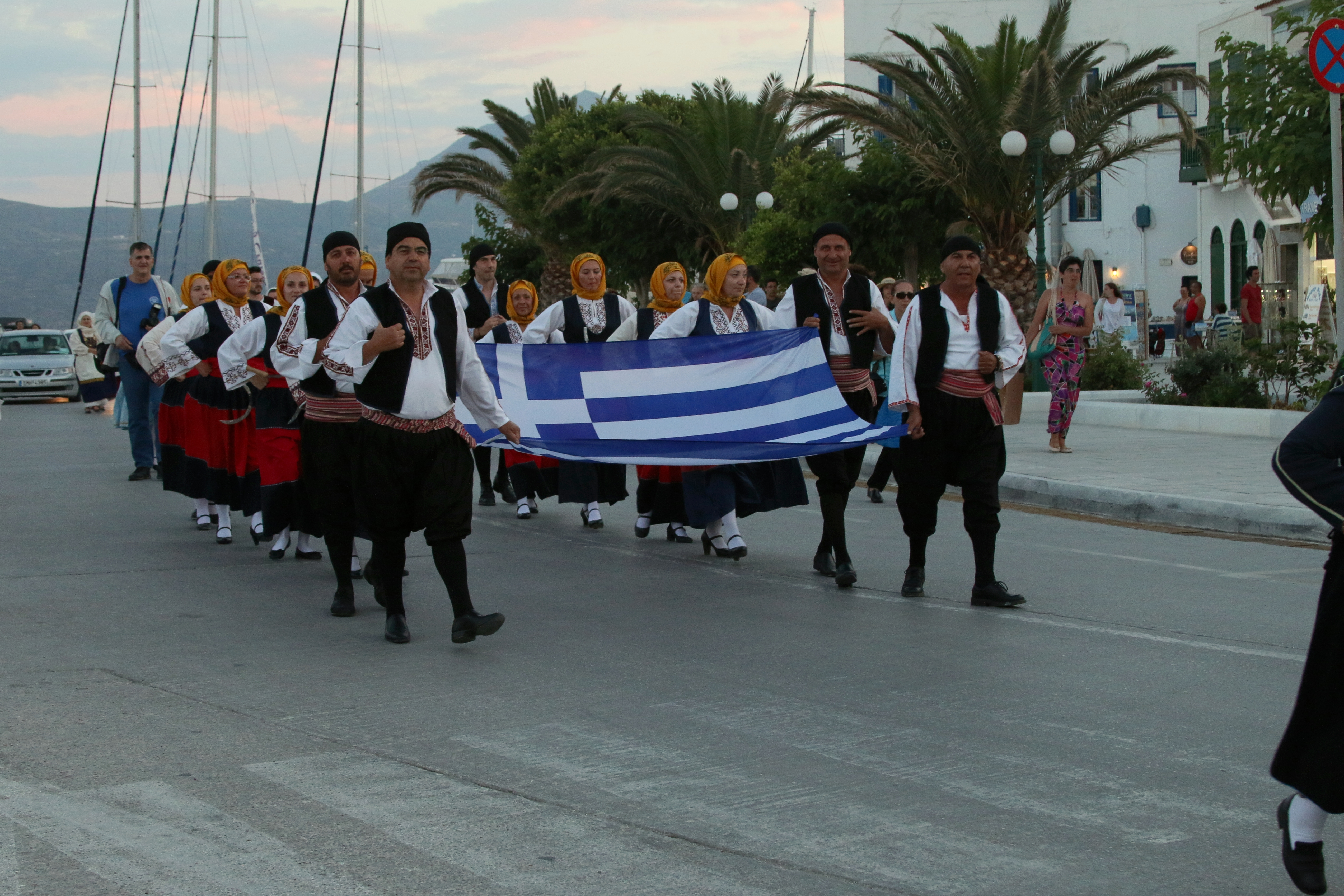 Folklore feast in Adamas on Milos.